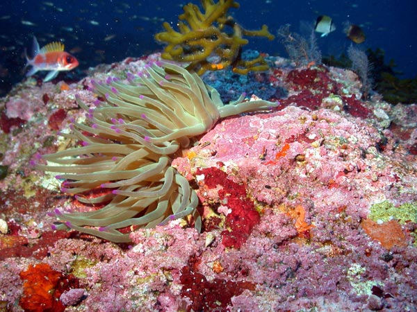 Condylactis gigantea